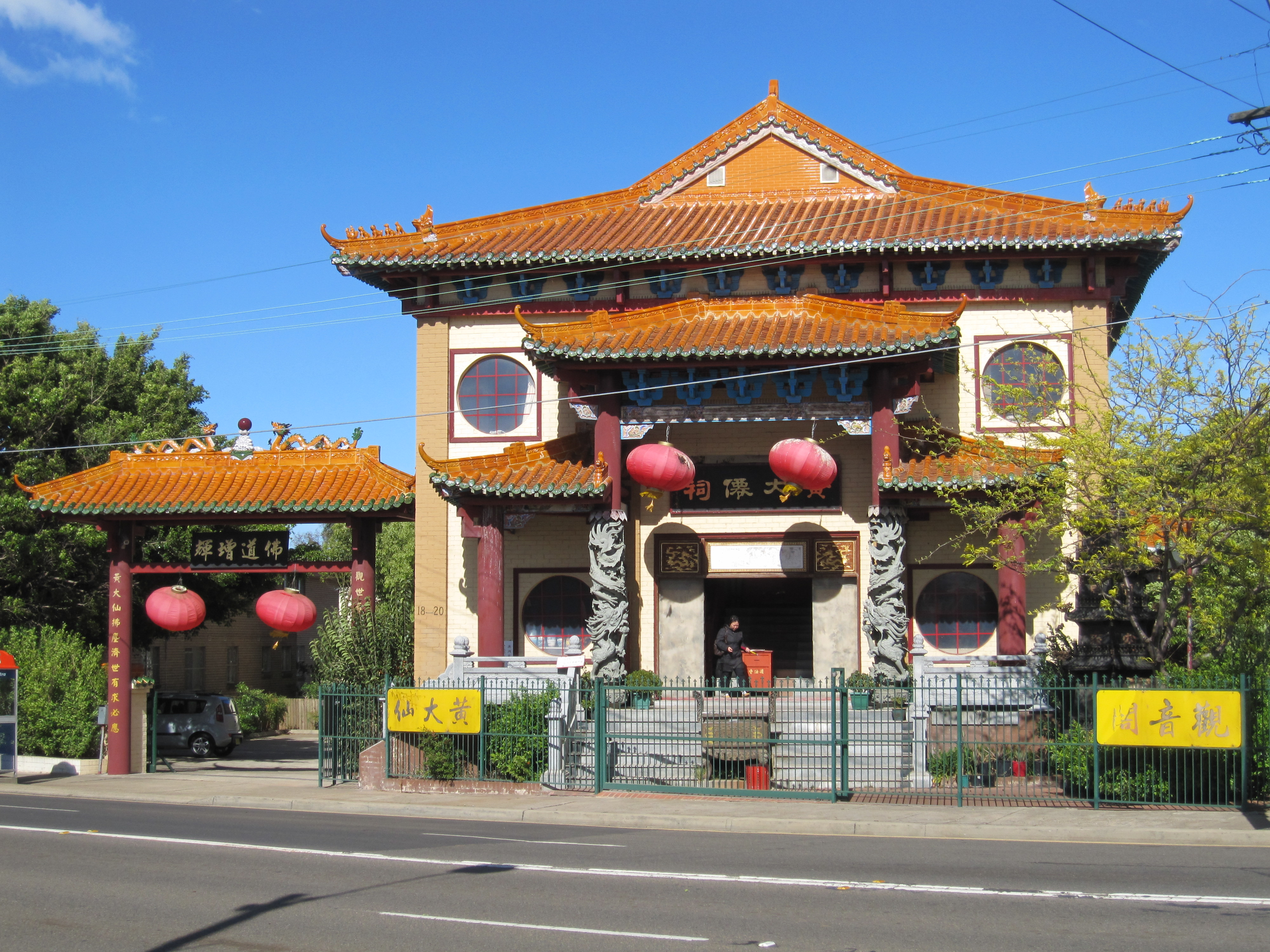 Summer Hill temple, Taoist deity of Wong Tai Sin on the lower floor and the Buddhist Bodhisattva of Kwan Yin on the upper floor. 18-20 Liverpool Road Summer Hill NSW 2130.